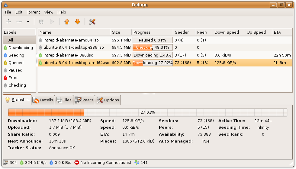 Screenshot of the second release-candidate for Deluge 1.0 taken under Ubuntu Linux